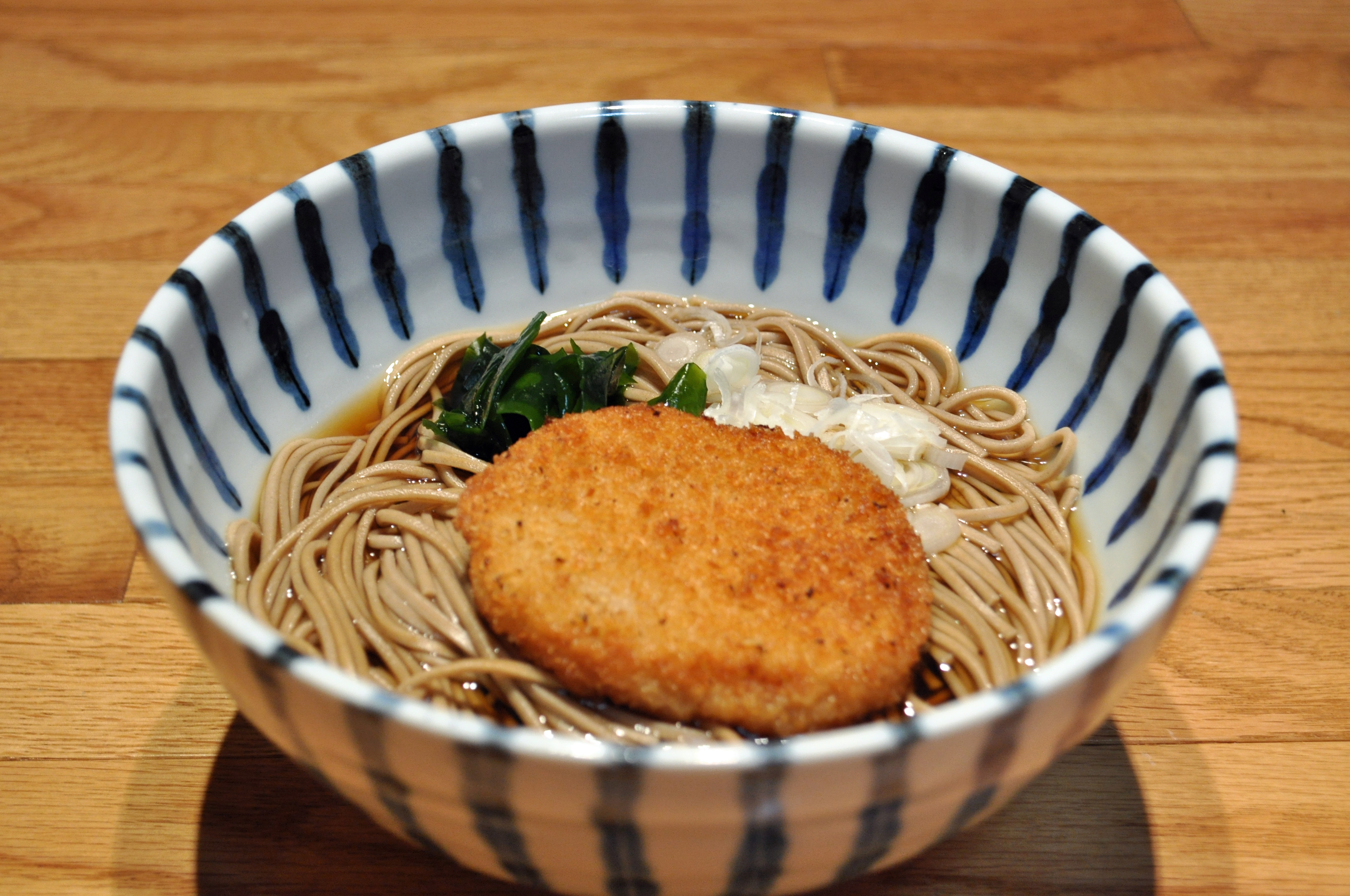 Kake soba with croquette on top